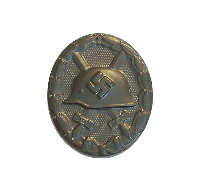 Black wound badge front